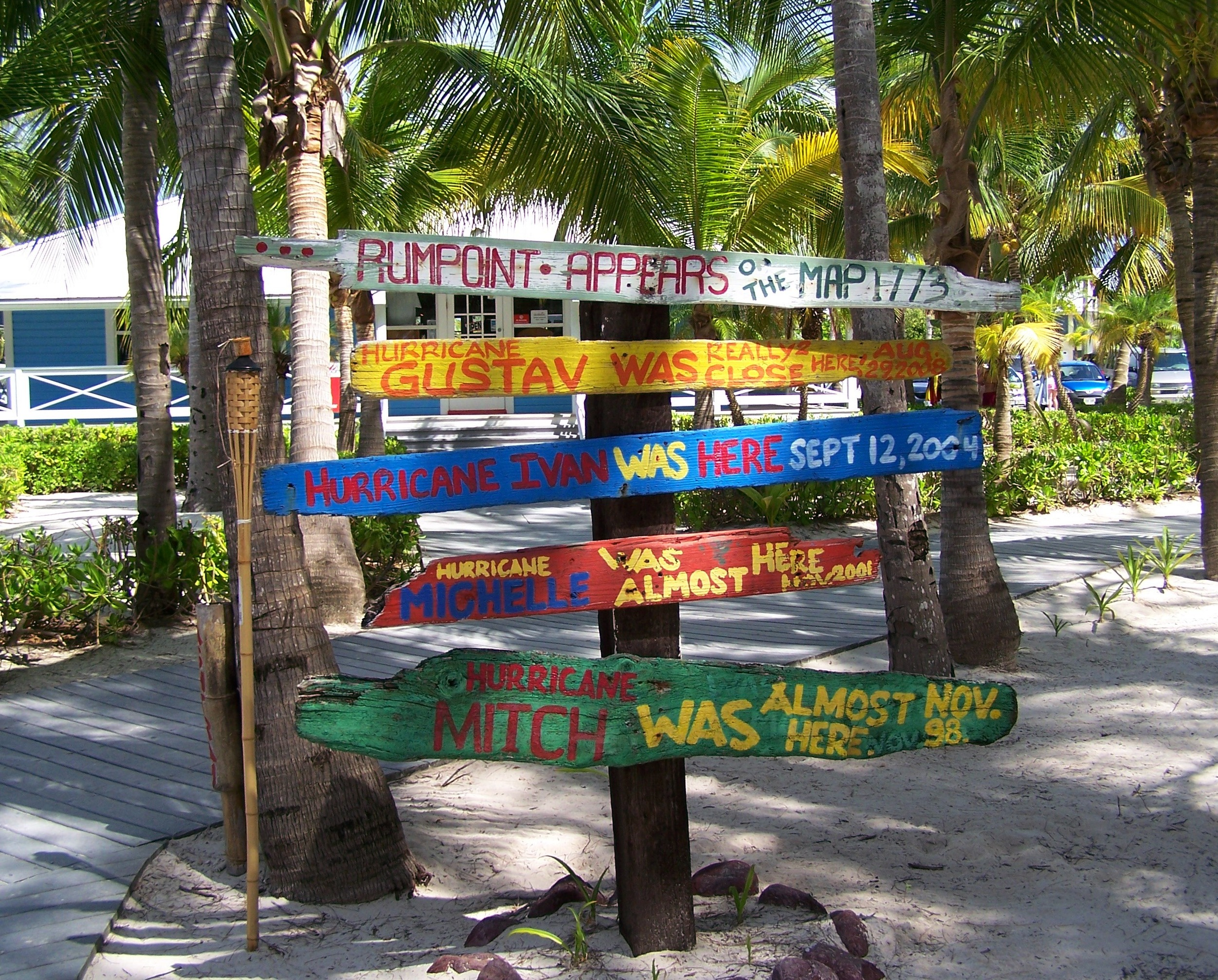 Signs denoting past hurricanes, Rum Point - Grand Cayman Island